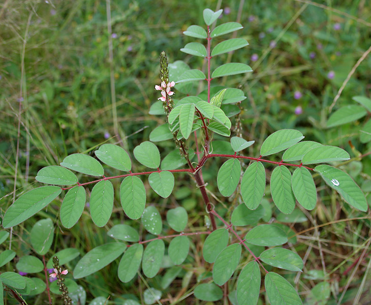 Silky indigo or Phulzadi Indigofera astragalina in Hyderabad , India.